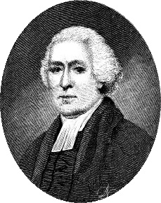 A small portrait of Bryan Fairfax, in an article by Constance Cary Harrison, his great-granddaughter.